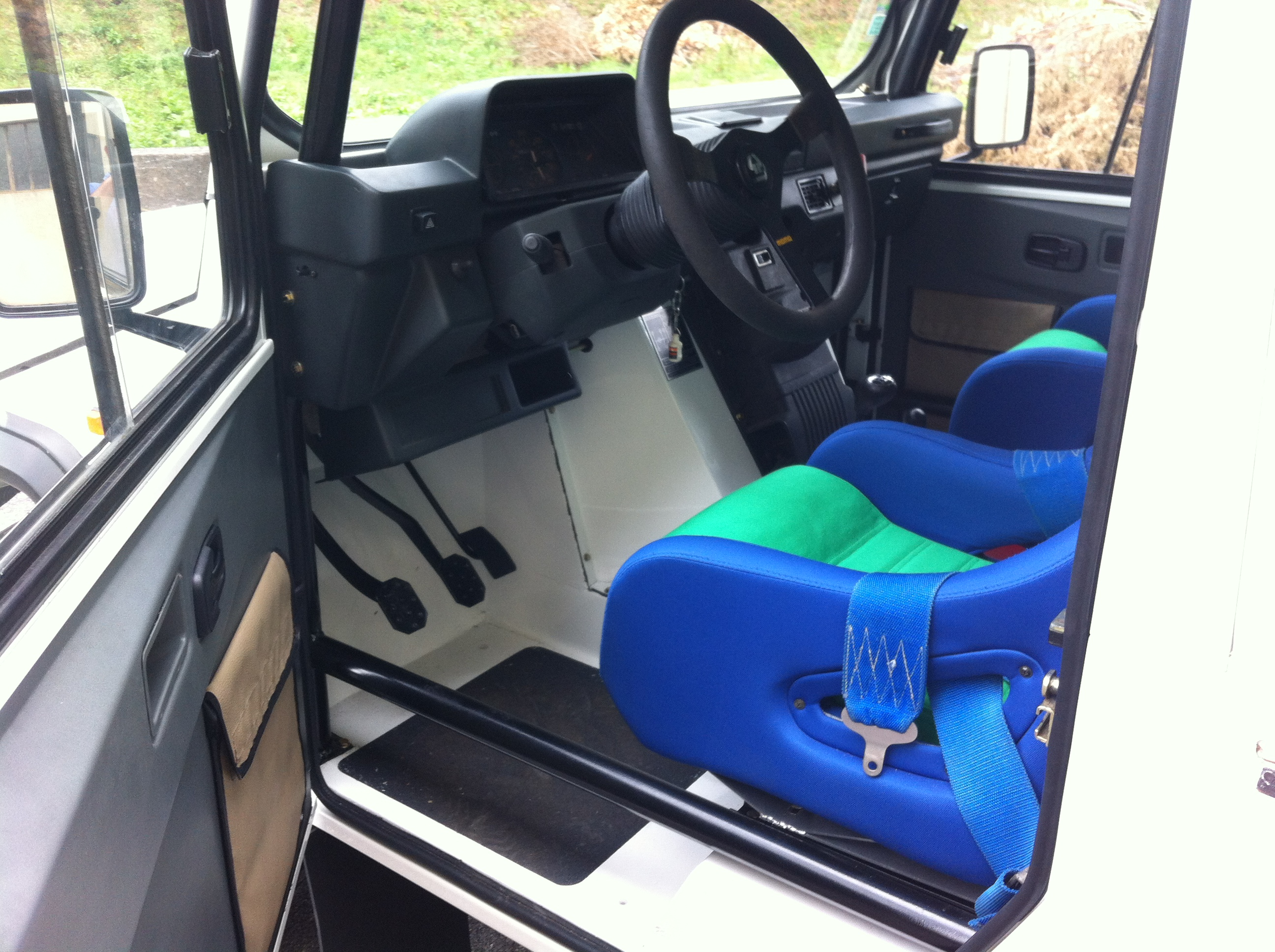 UMM Alter Trofeu 1992 interior